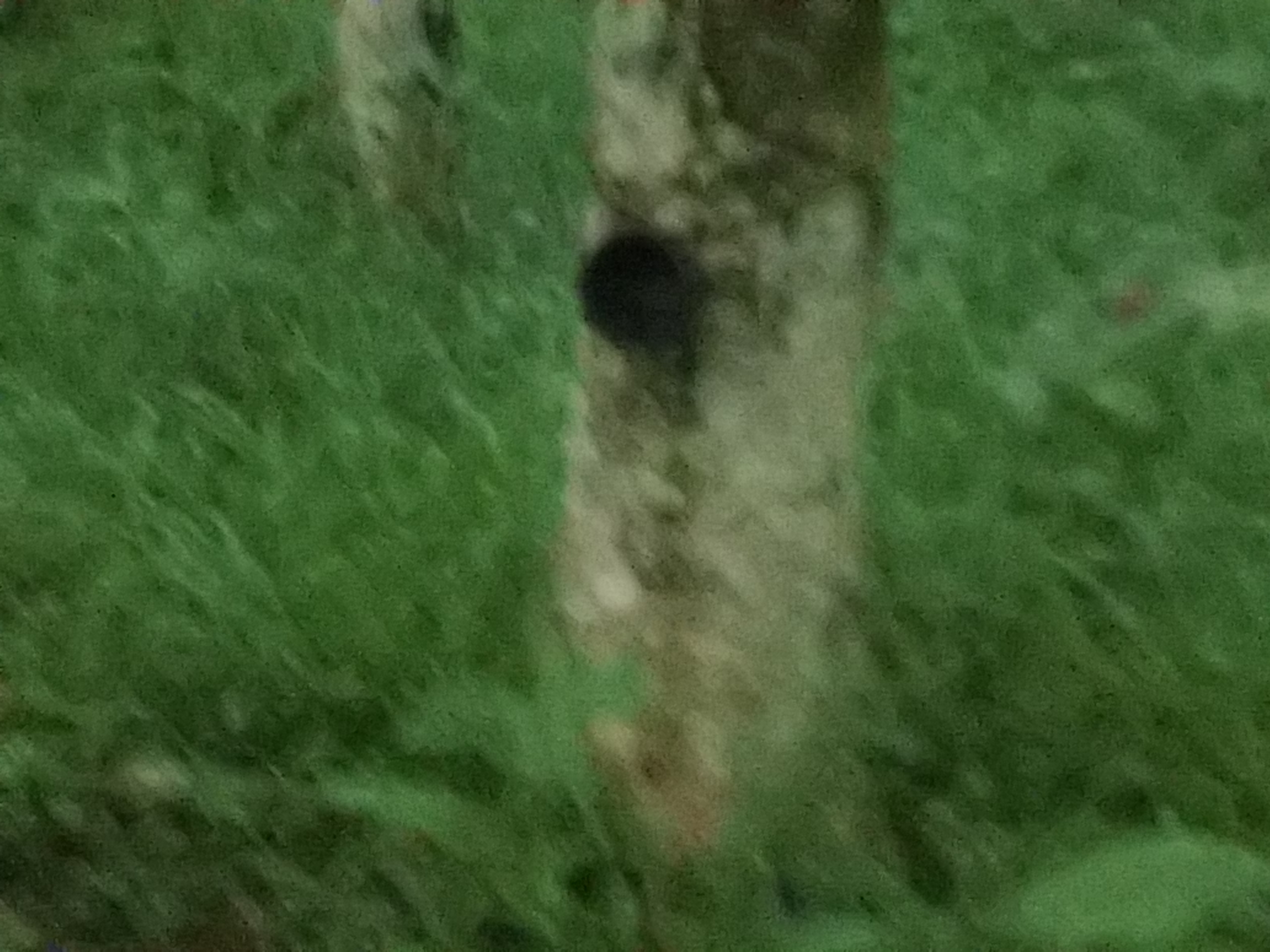 Chayalode